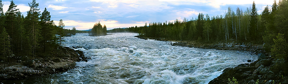 Benbryteforsen in Pite river, Lappland, Sweden